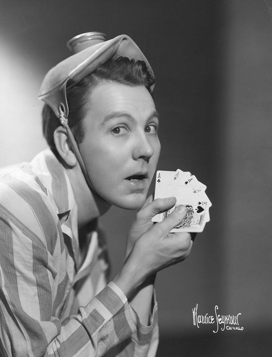 Photo of actor Clinton Sundberg.